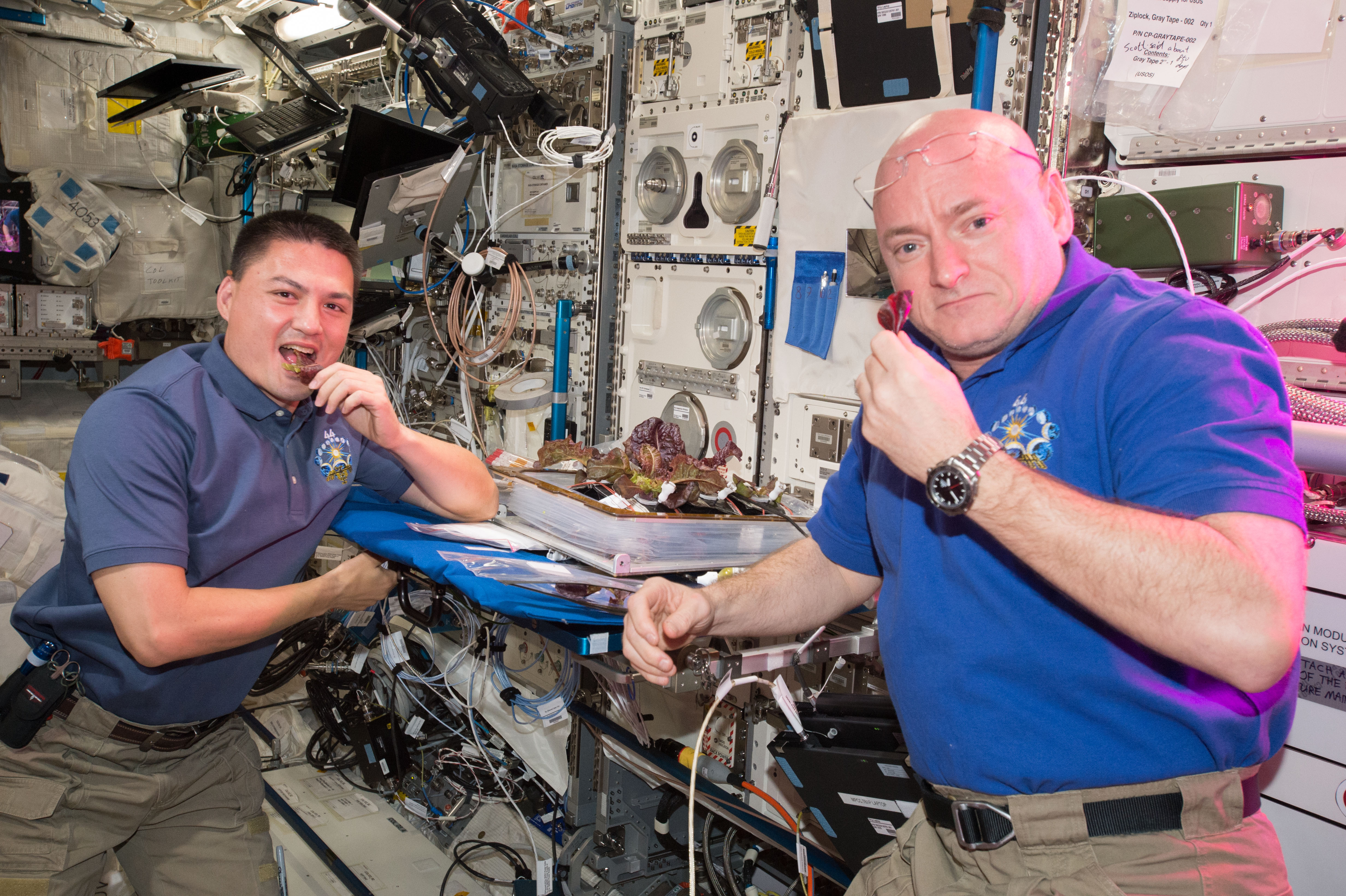 NASA astronauts Scott Kelly and Kjell Lindgren on the International Space Station are getting their taste buds ready for the first taste of food that's grown, harvested and eaten in space, a critical step on the path to Mars. The crew took their first bites on Aug. 10, 2015.